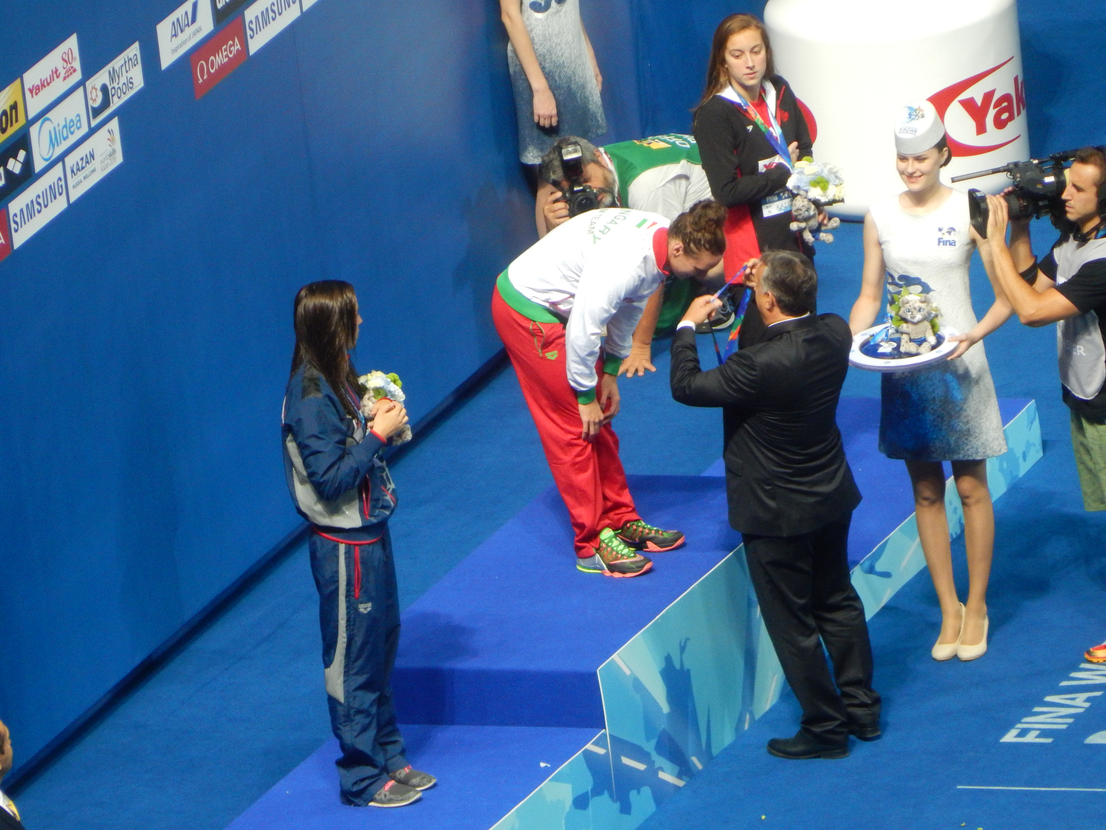 Medallists at the women's 400 metres IM in Kazan 2015